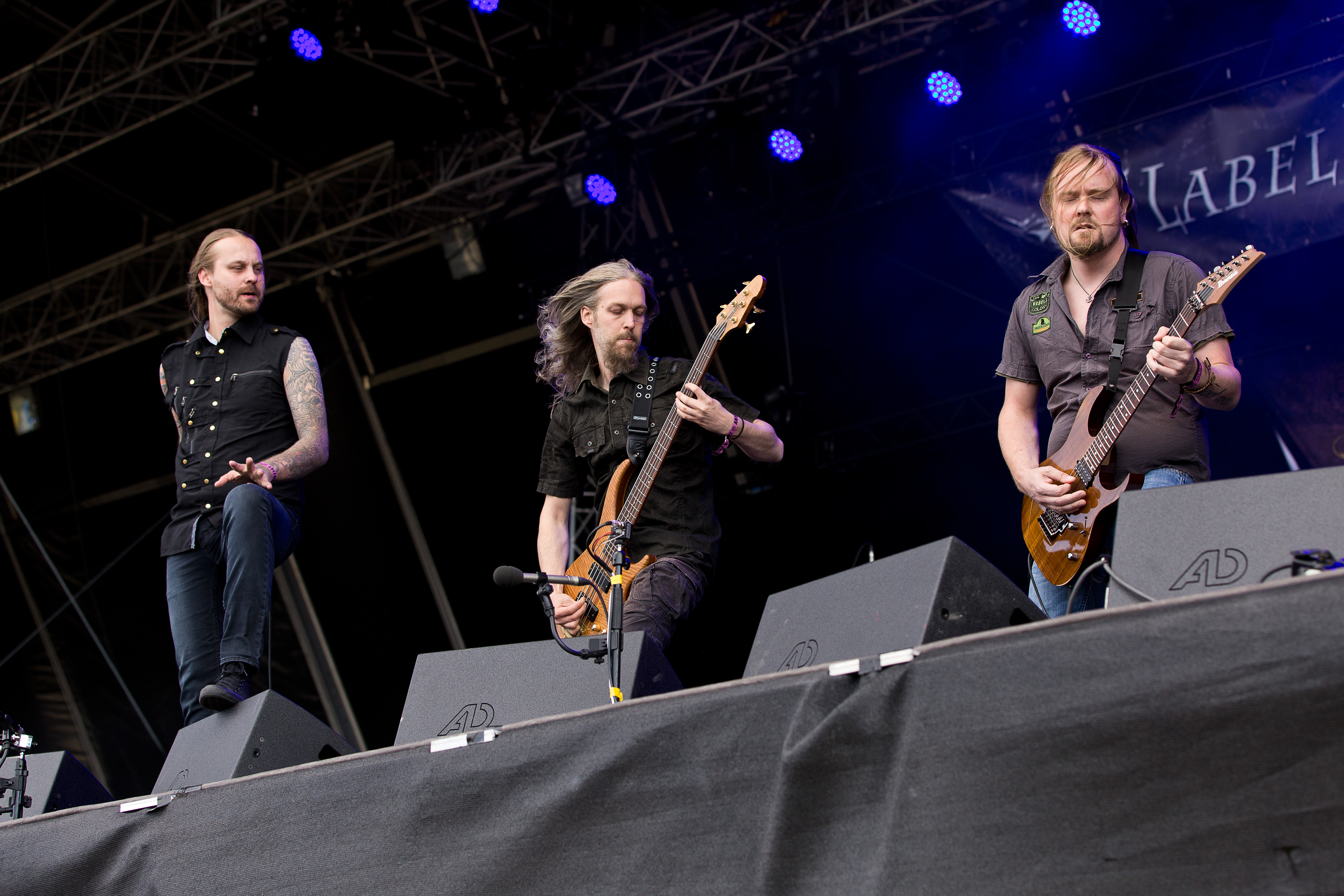 The Finnish melodic death metal band Mors Principium Est at the Rockharz Open Air 2016 in Ballenstedt/Germany.